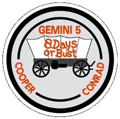 Gemini 5 logo